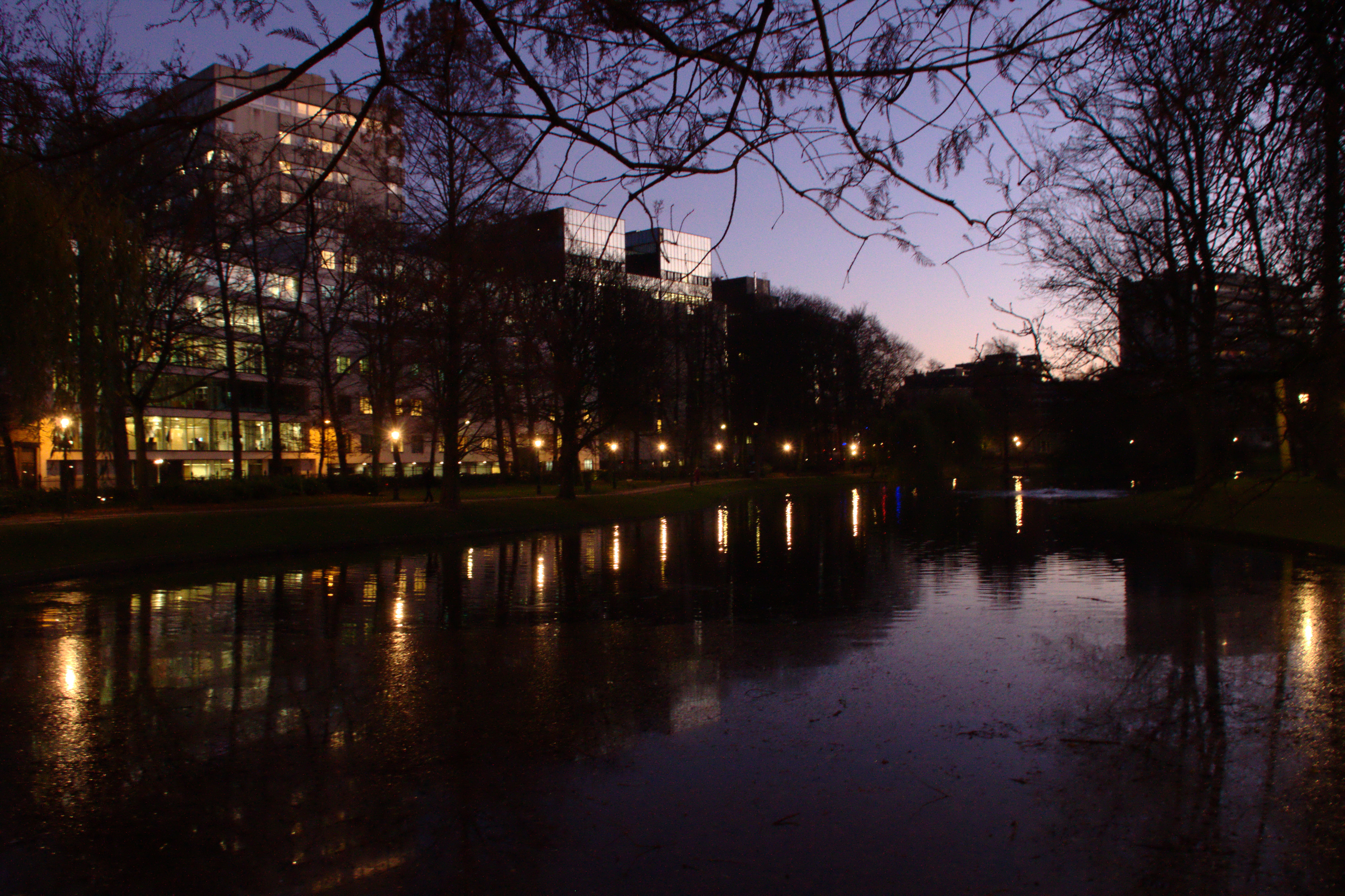 An evening view of the main lake in Parc Leopold, Brussels